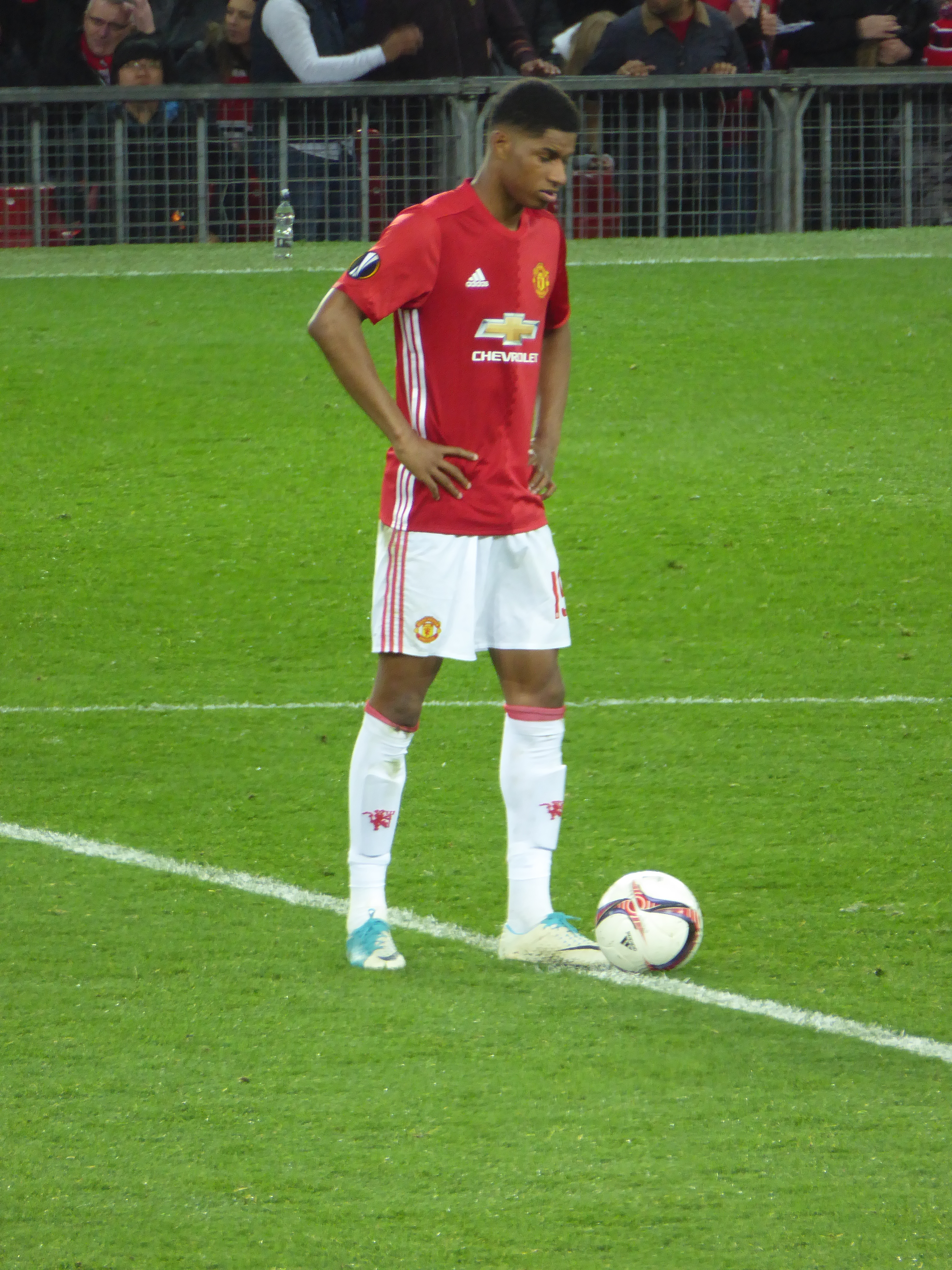 Manchester United v RSC Anderlecht (2-1), UEFA Europa League, Old Trafford, Manchester, Greater Manchester, England, 20 April 2017